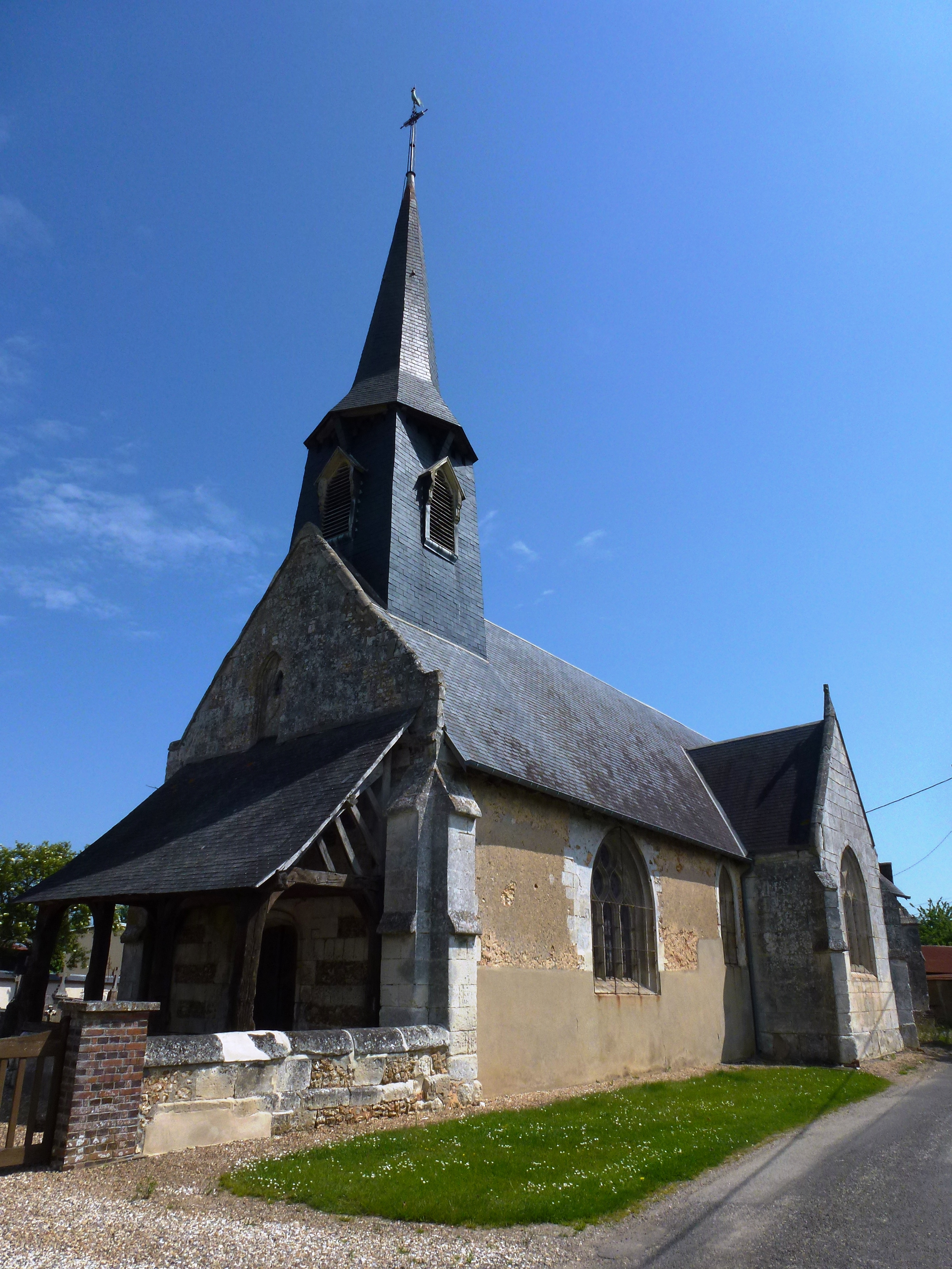 Perriers-la-Campagne (Eure, Fr) église Saint-Maclou